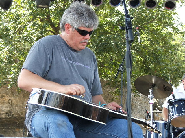 Lloyd Maines performing with Terri Hendrix at the Austin City Limits Music Festival (2006)